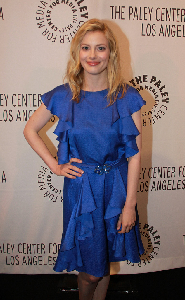 American actress Gillian Jacobs aka Britta of NBC's "Community" at the Saban Theatre on Wednesday, March 3rd, 2010.